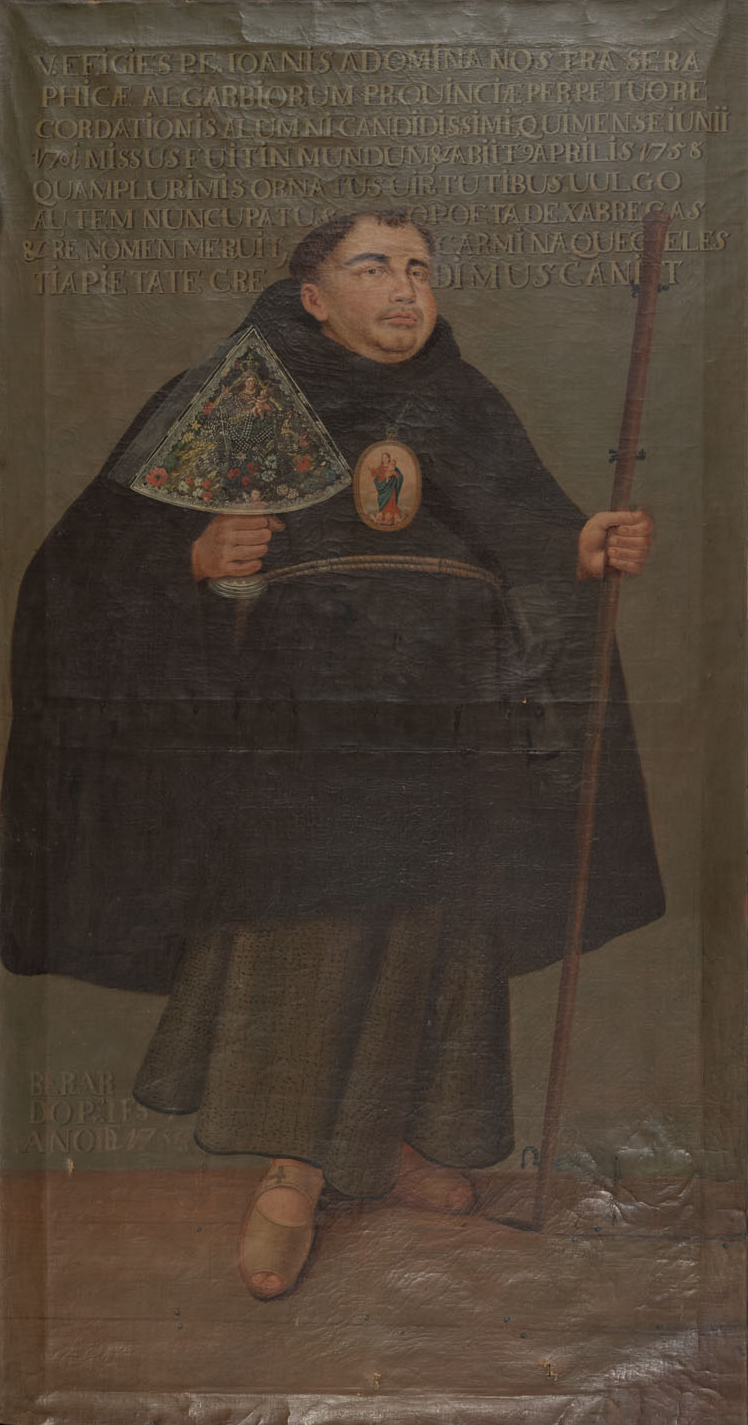 Friar John of Our Lady (Frei João de Nossa Senhora), 1701-1758, by Berardo Pereira Pegado. National Library of Portugal.